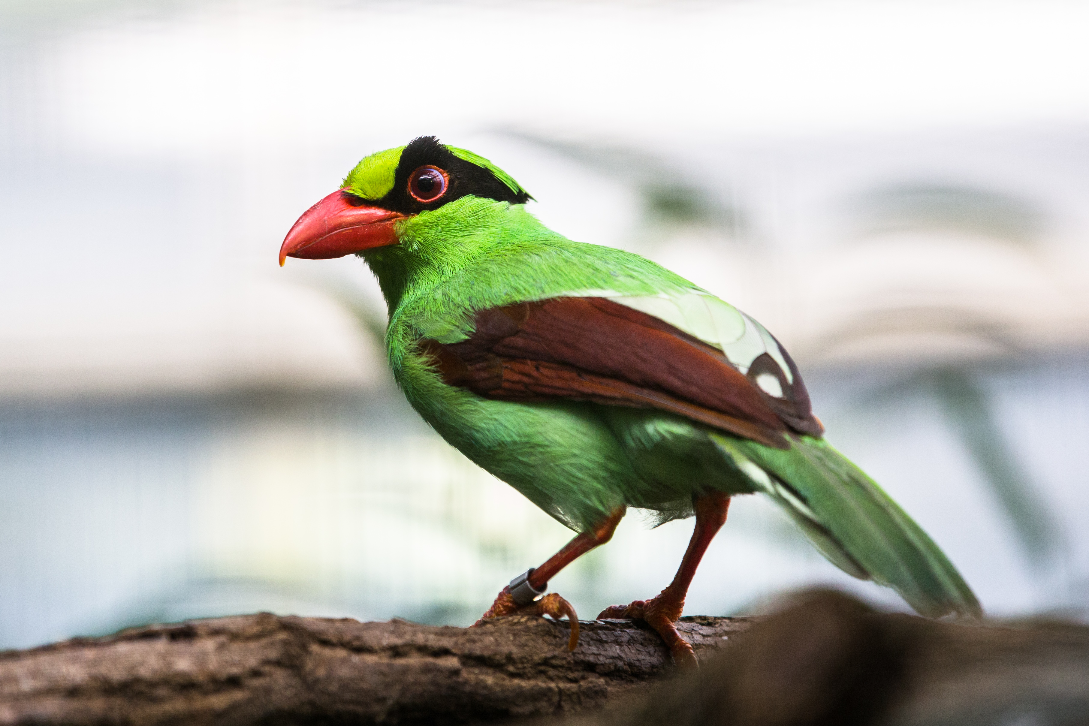 Javan Green Magpie